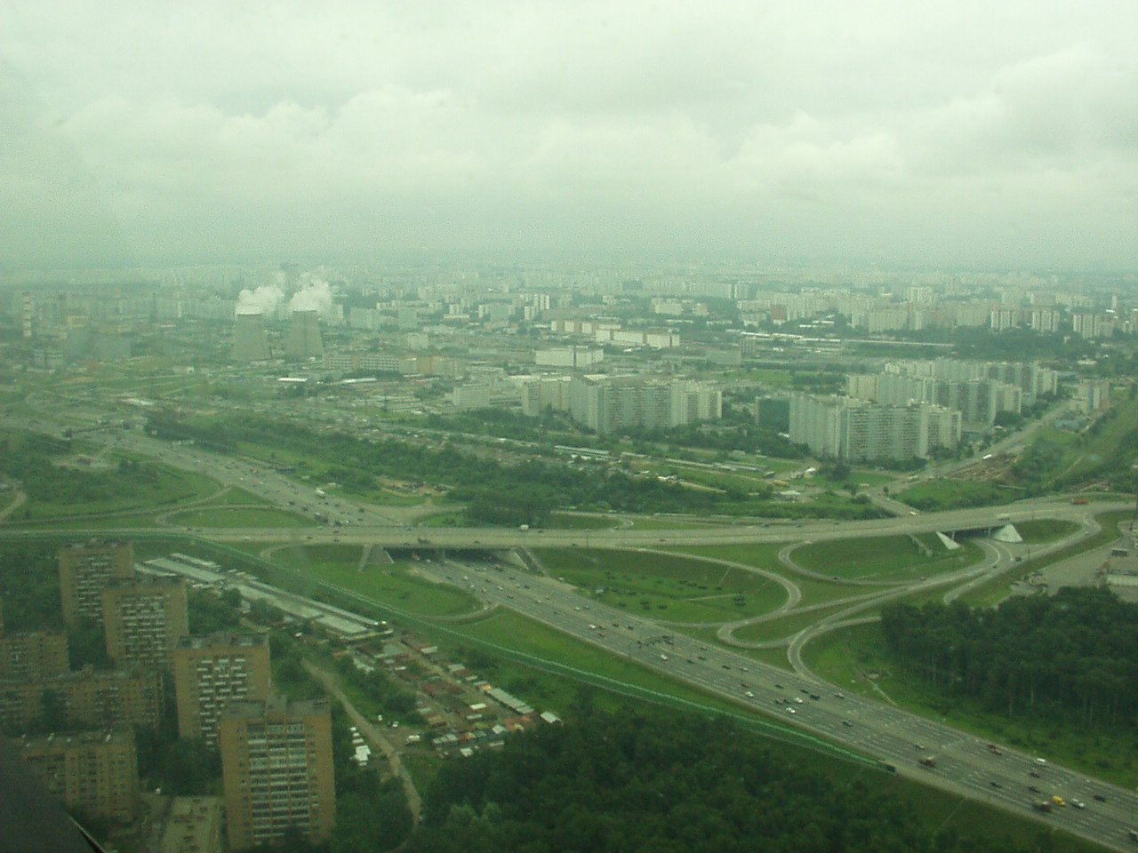 MKAD and Bibliotechny Proezd / Pozharskogo ul. in northern Moscow / Khimki